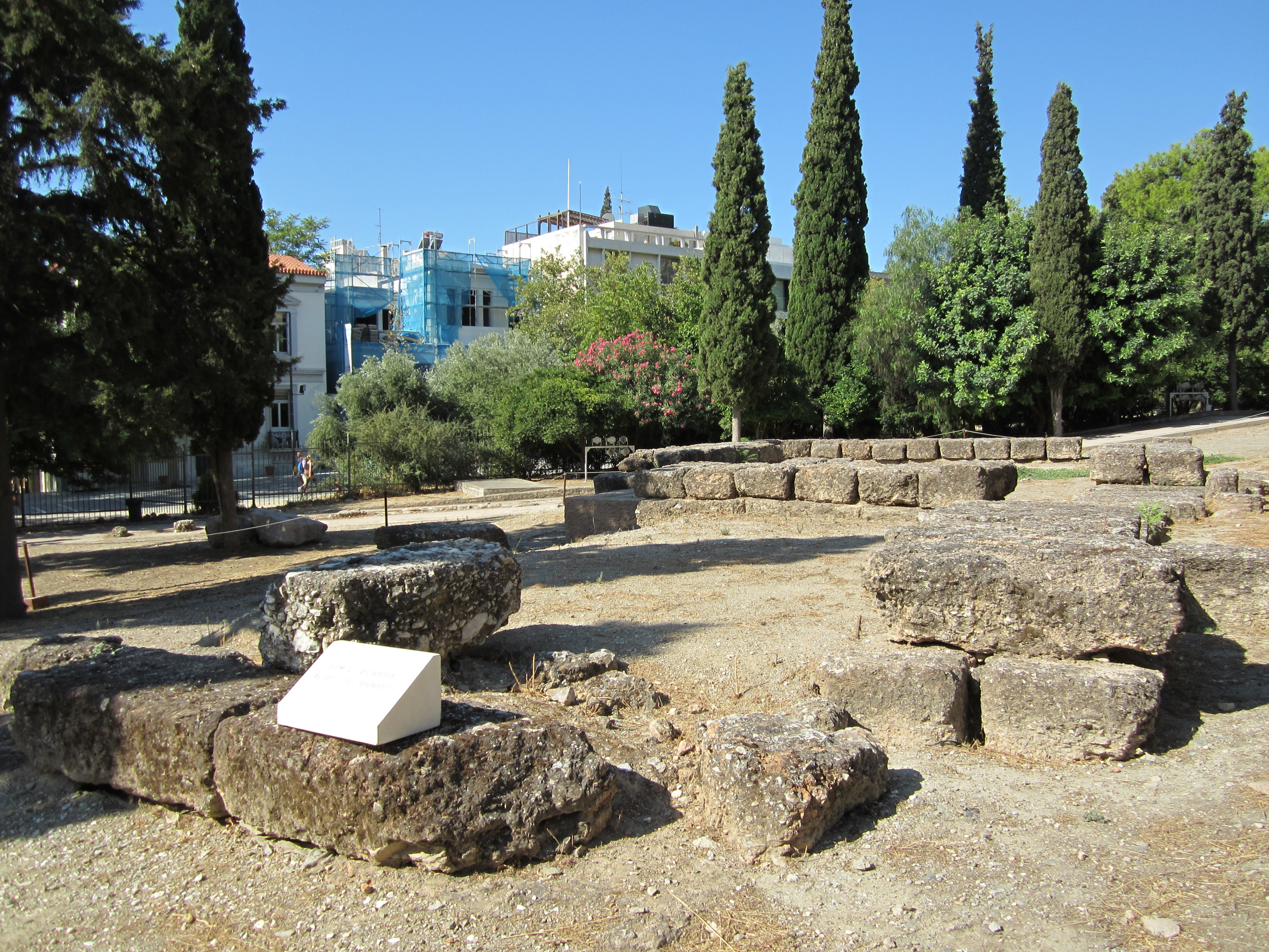 Ruins of the Temple of Dionysus Eleuthereus. In the Sanctuary of Dionysus Eleuthereus, Acropolis of Athens.